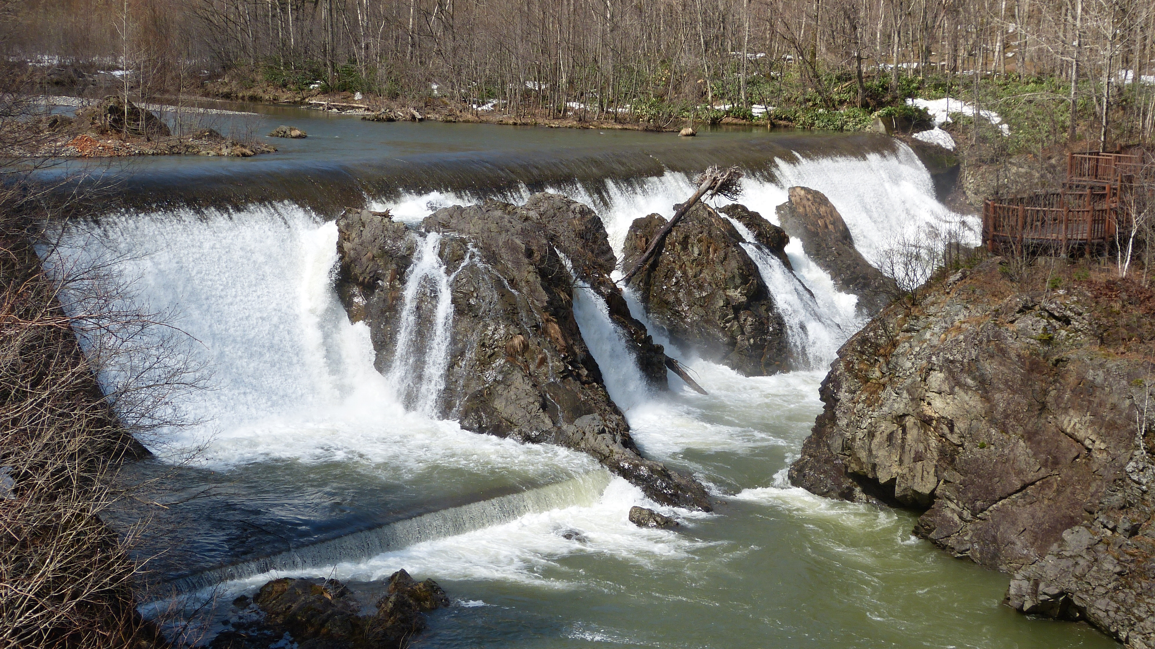 Waterfalls of Pyōtan,Hokkaido prefecture,Japan